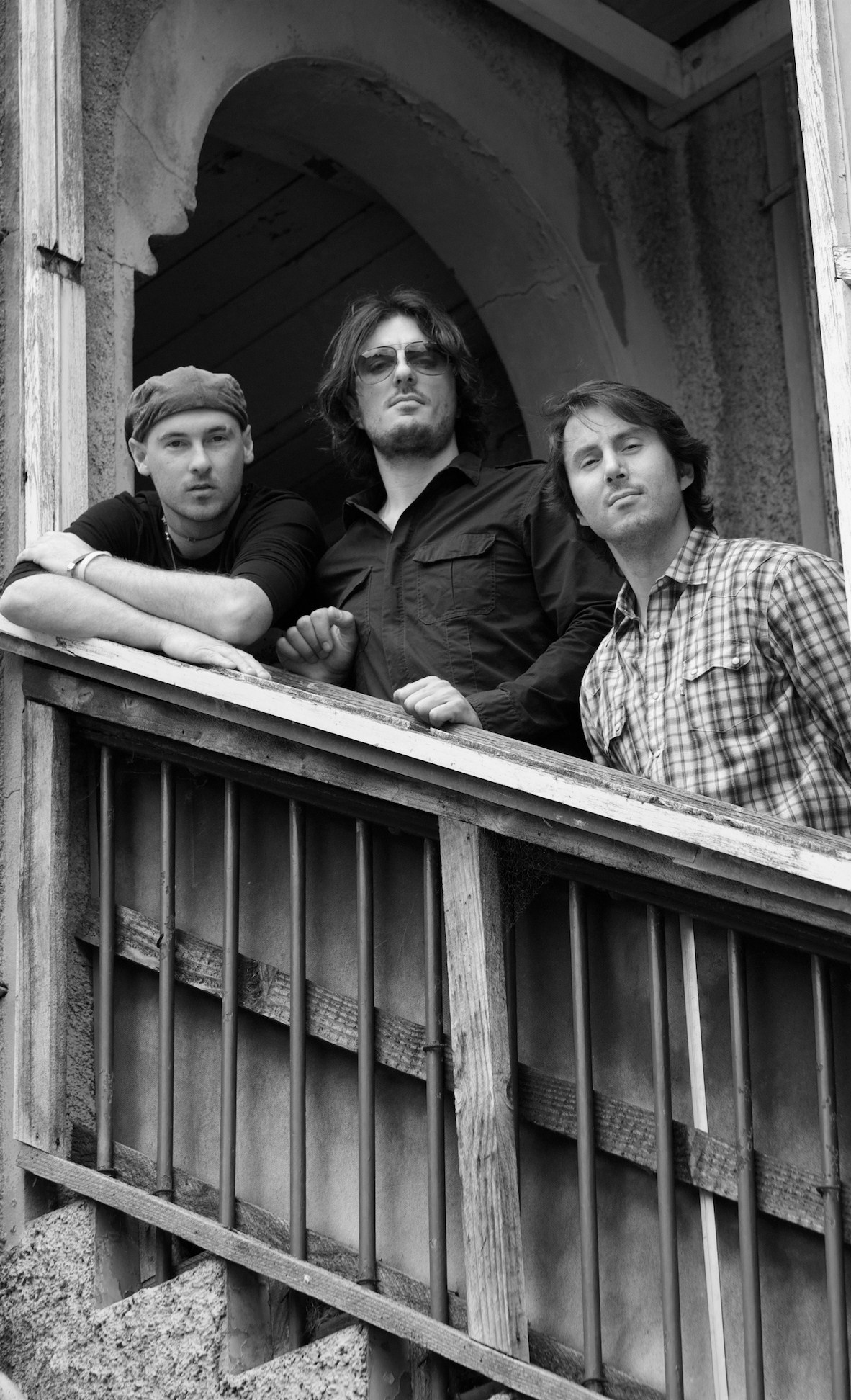 I took this photo at the old Convent